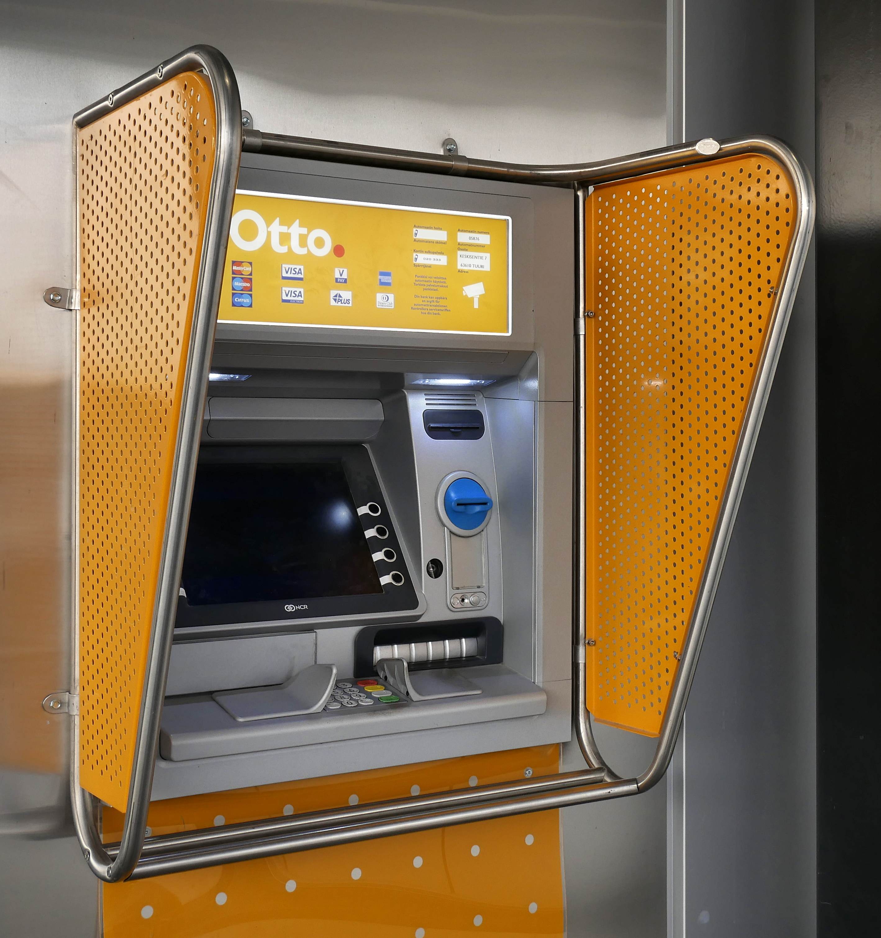 Automatic teller machine in Finland.